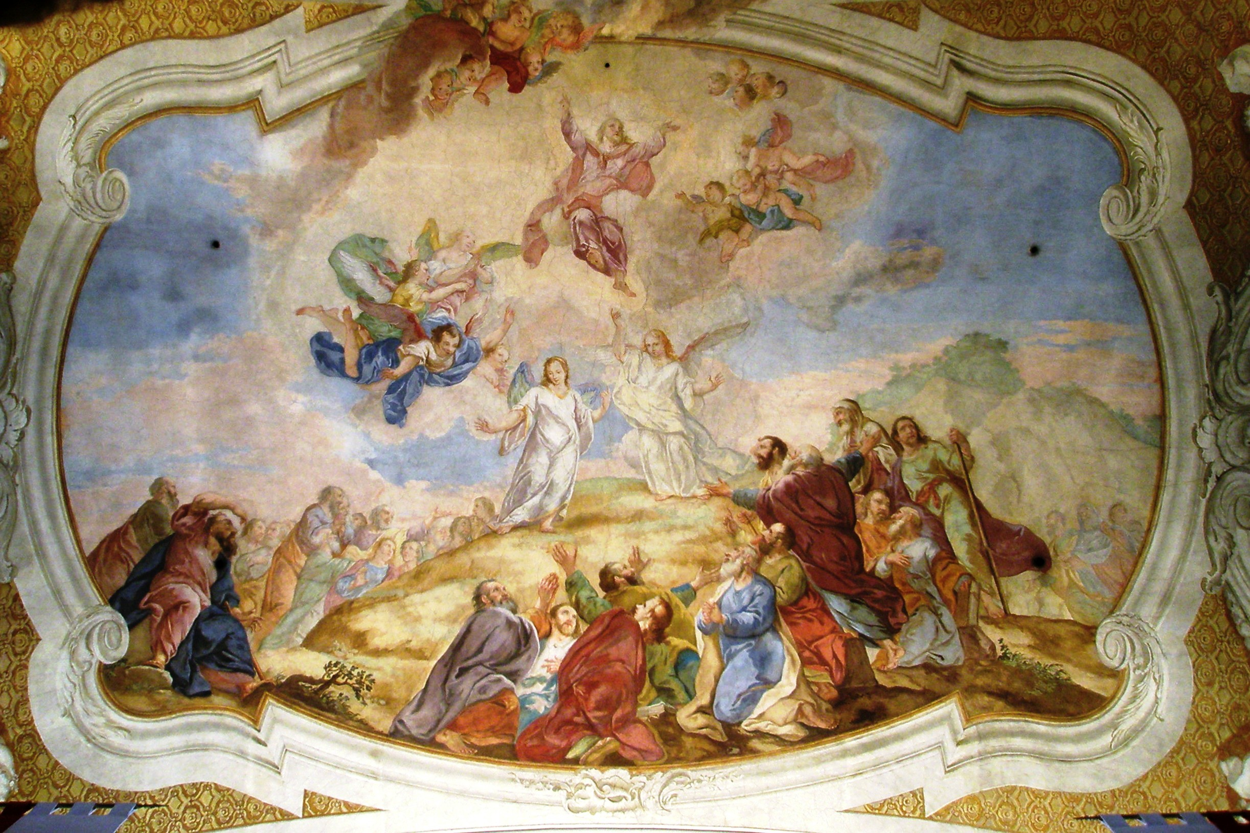 Ascension of Christ cellar painting in the Grace Church (Church of St. Cross) of Jelenia Góra (Hirschberg) Česky: Nástropní freska Nanebevstoupení Páně v kostele milosti (kostele sv. kříže) v Jelení Hoře